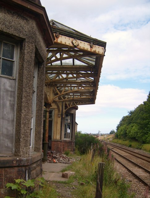 This is the derelict Laurencekirk Station as it is today after being closed for over 40 years. It is being restored and is due to open in the summer of 2009.